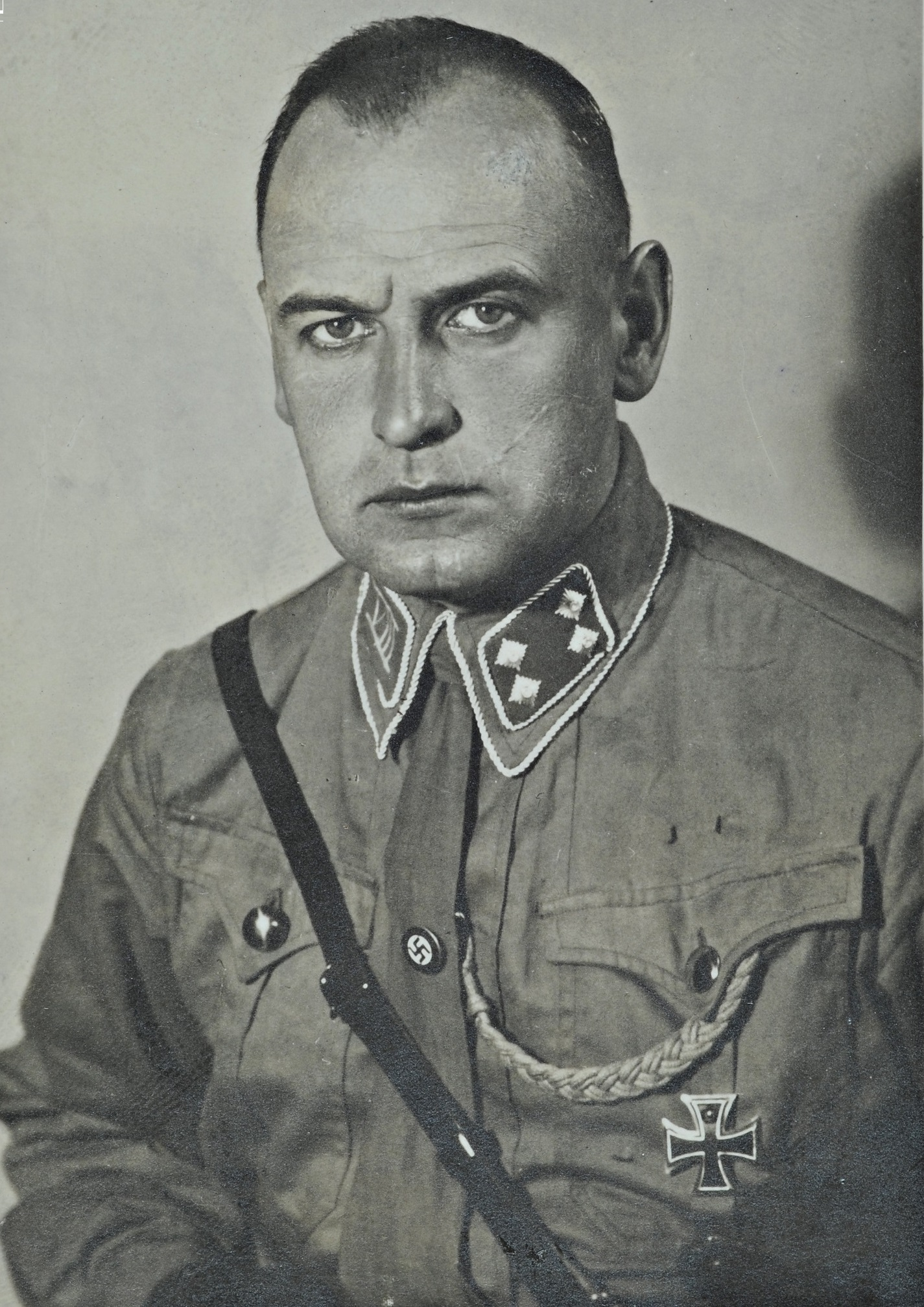 The SA-Brigadeführer (here: Stubaf) Joachim Schroedter (1897-1934), executed as one of the victims of the political purge known as "Night of the Long Knives". Picture taken in 1931.